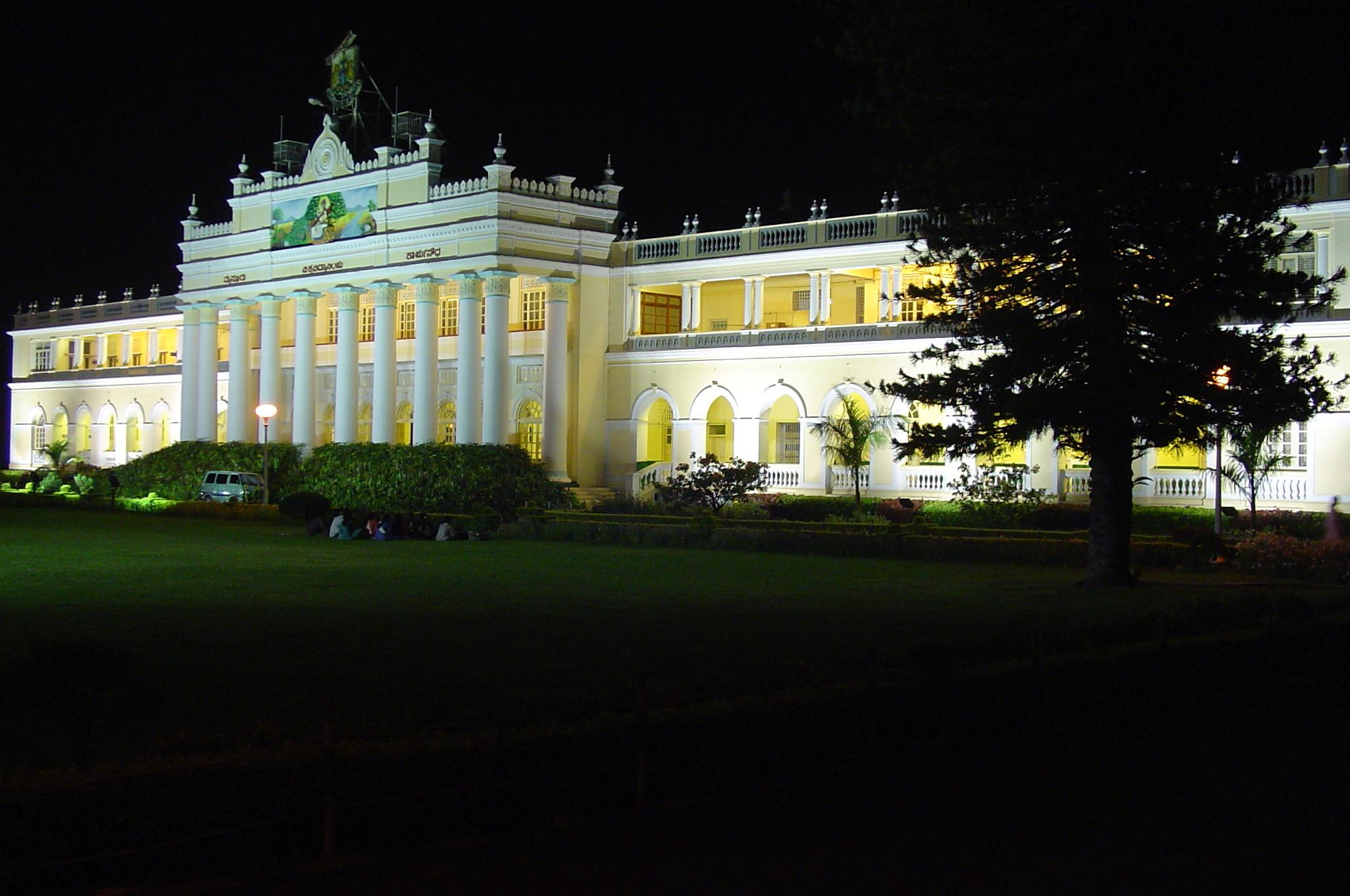 Crawford Hall, the administrative headquarters of the Mysore University, located in Mysore, India.